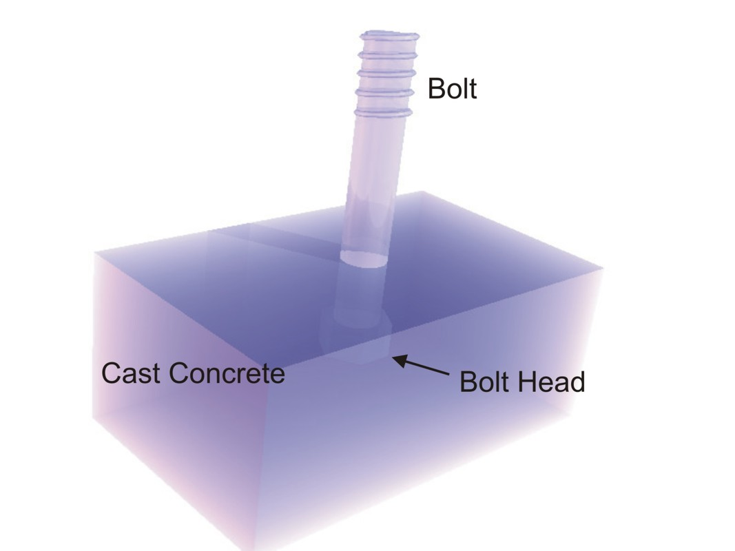 An anchor bolt in concrete. Created using Art of Illusion